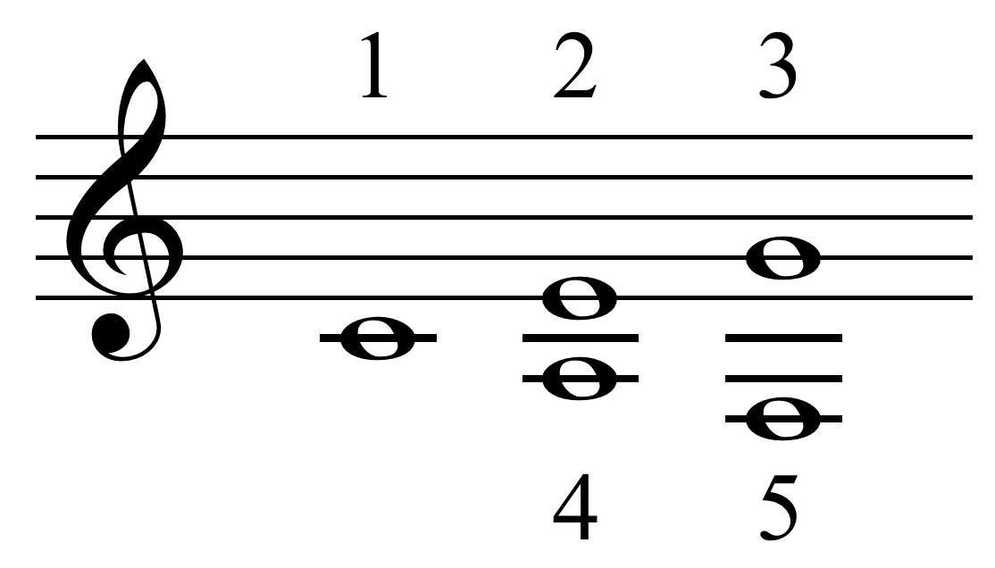 "1. Tonic, 2. Mediant, i.e., half-way to Dominant, 3. Dominant, 4.Sub-Mediant, i.e., half-way to Sub-Dominant, 5. Sub-Dominant."